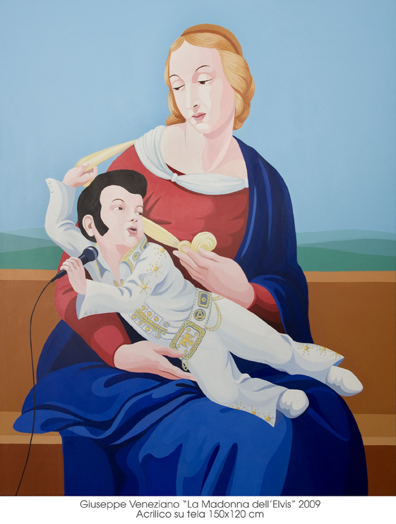 Giuseppe Veneziano Madonna dell'Elvis 2009